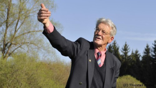 Photo of Anton Posset during a guide through the european holocaust memorial in Landsberg with the kind permission of Thorsten Jordan